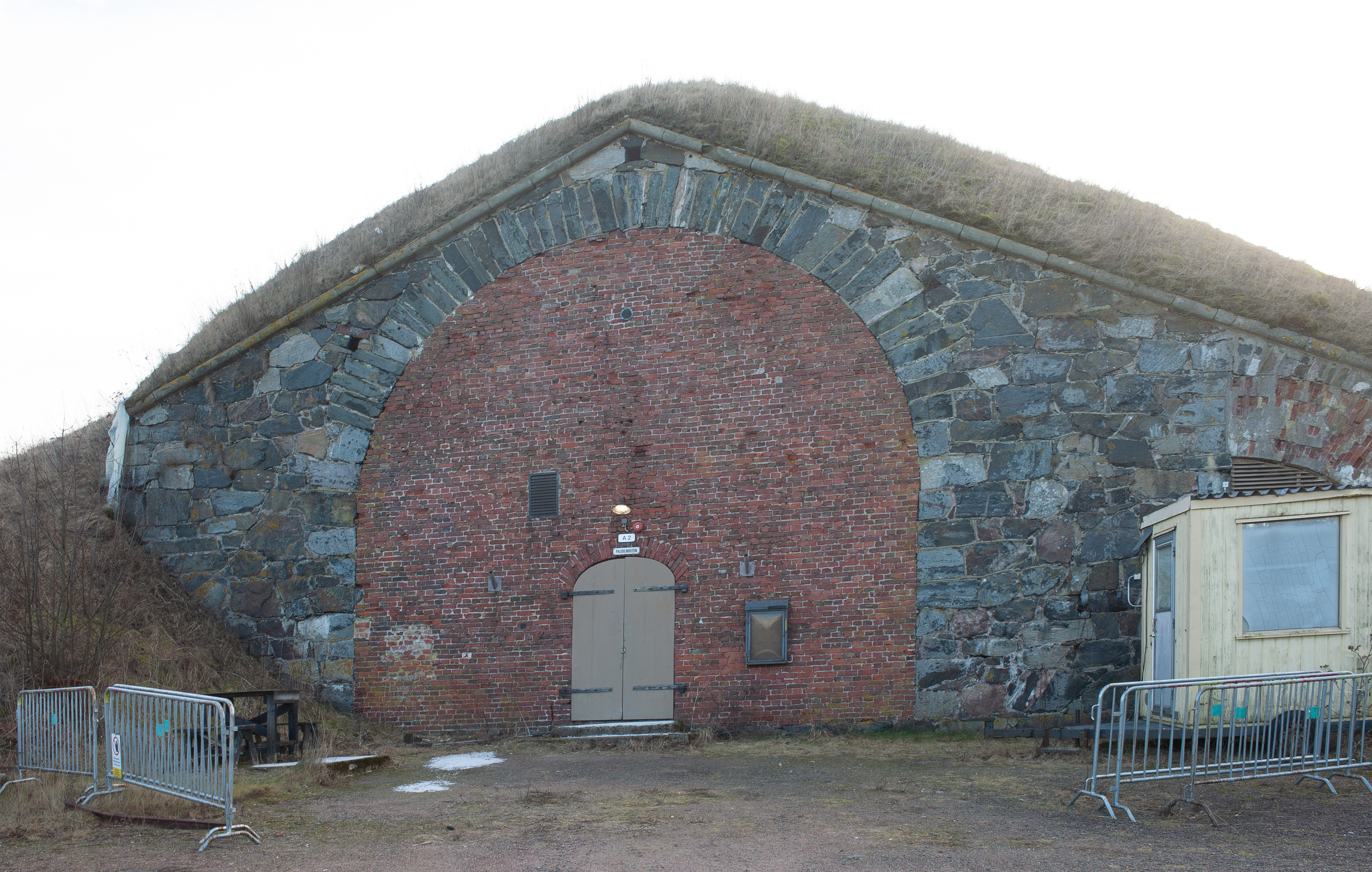 Gunpowder magazine. Suomenlinna A 2. Built in 1776-1778.